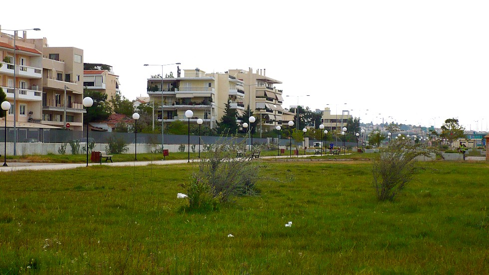 Intermunicipality Attica Park of Vrilissia.